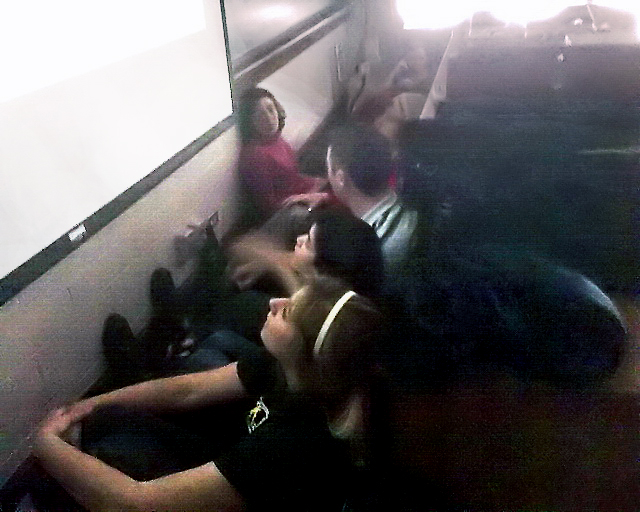 Students gather in Holden Hall during the massacre at Virginia Tech.